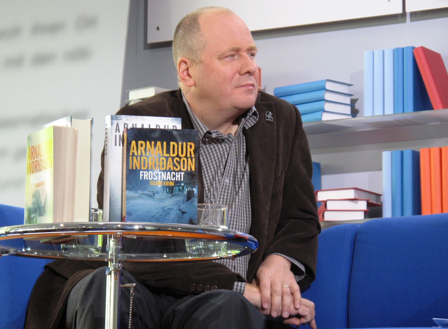 Frankfurt Book Fair 2011